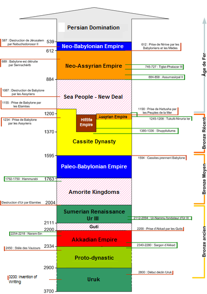 A schematic chronology of Mesopotamia, with main labels translated to English, to discuss feasibility of translation